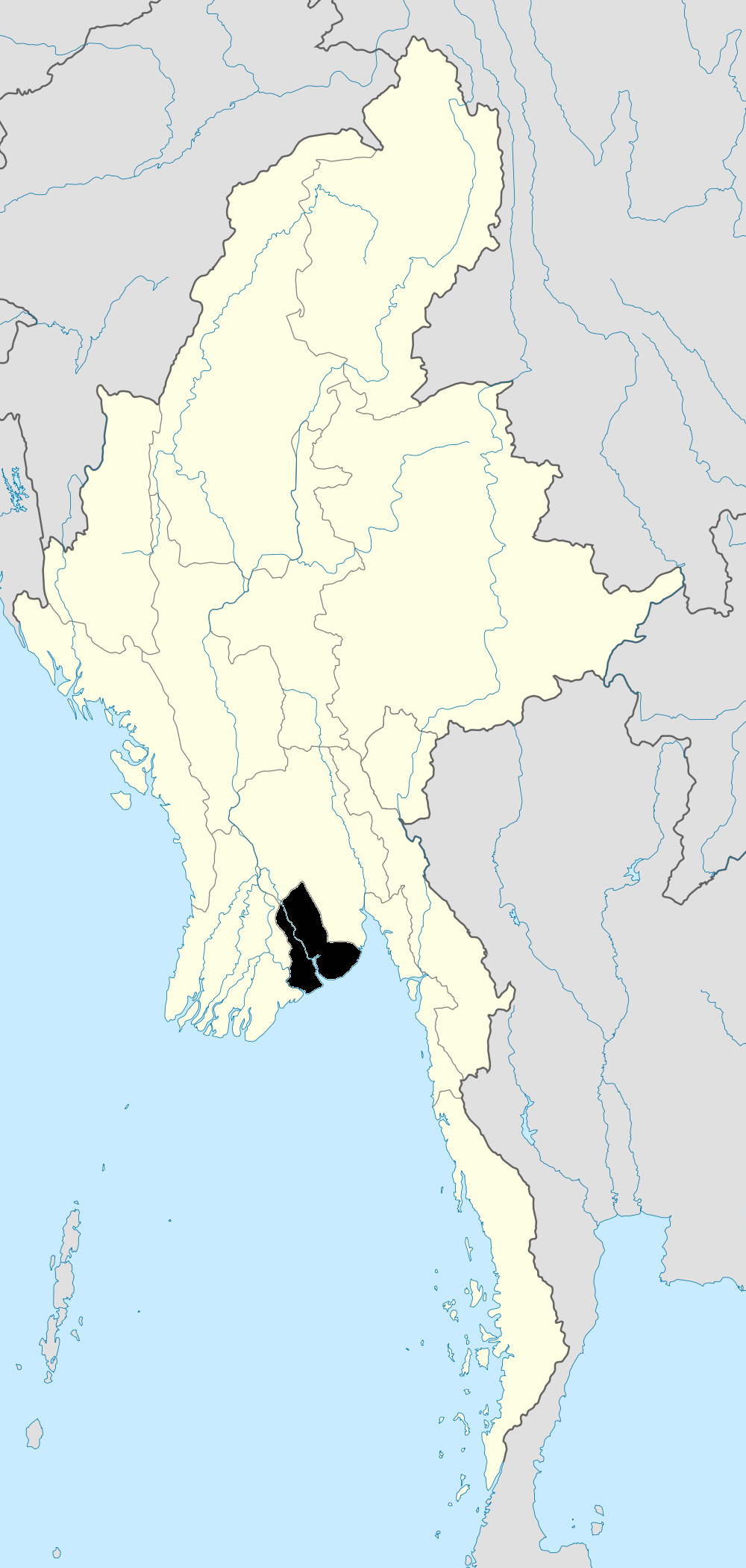 Map showing Yangon Region in Burma